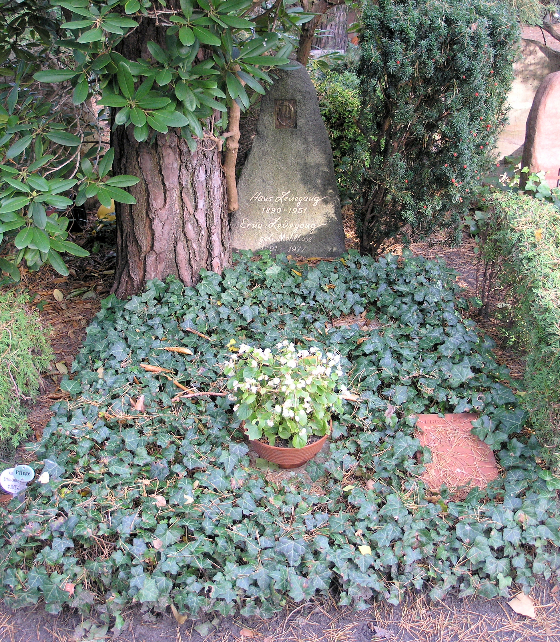 "Ehrengrab" (grave of honor), Hans Leisegang, Hüttenweg 47, Berlin-Dahlem, Germany Koordinate:52°27′20″N 13°15′49″E / 52.45556°N 13.26361°E